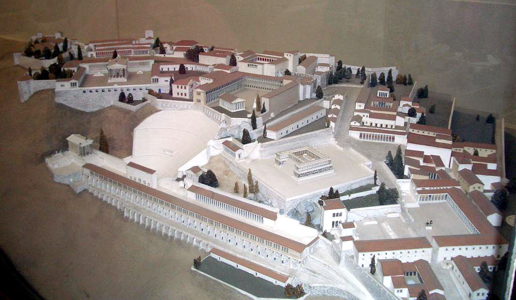 A model of the acropolis of the ancient Greek city of Pergamon, showing the situation in the 2nd century AD, by Hans Schleif (1902-1945).